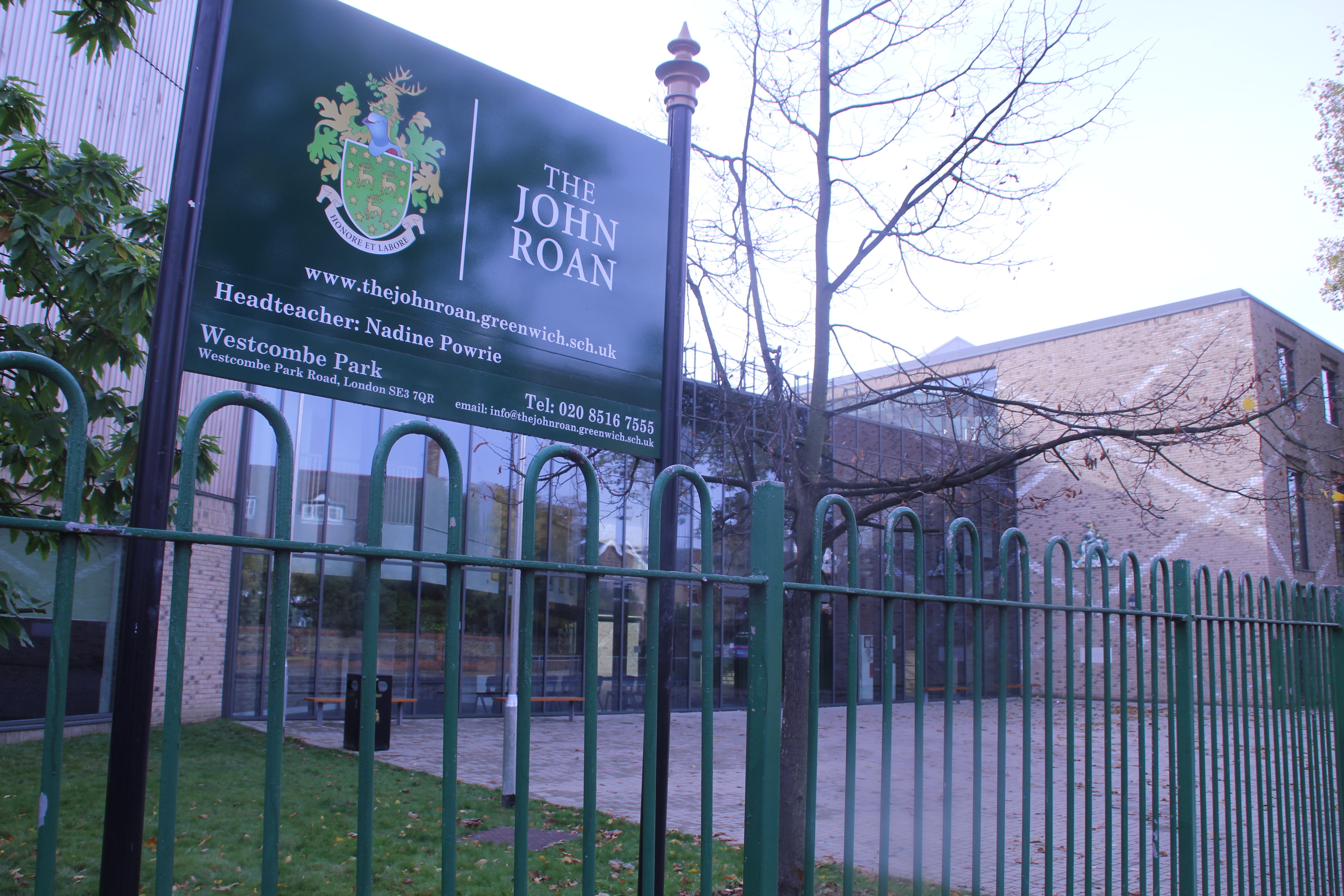 John Roan School sign and school building, Westcombe Park Road, London SE3